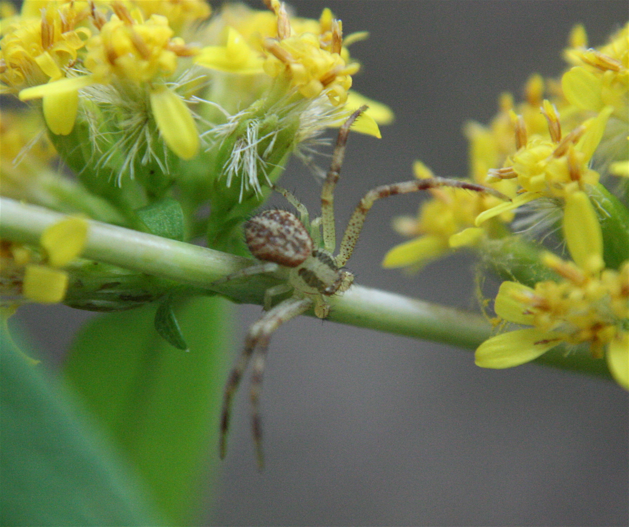 A Celer Crab Spider (Misumenops celer) found on Solidago sp. in Al Sabo Preserve.